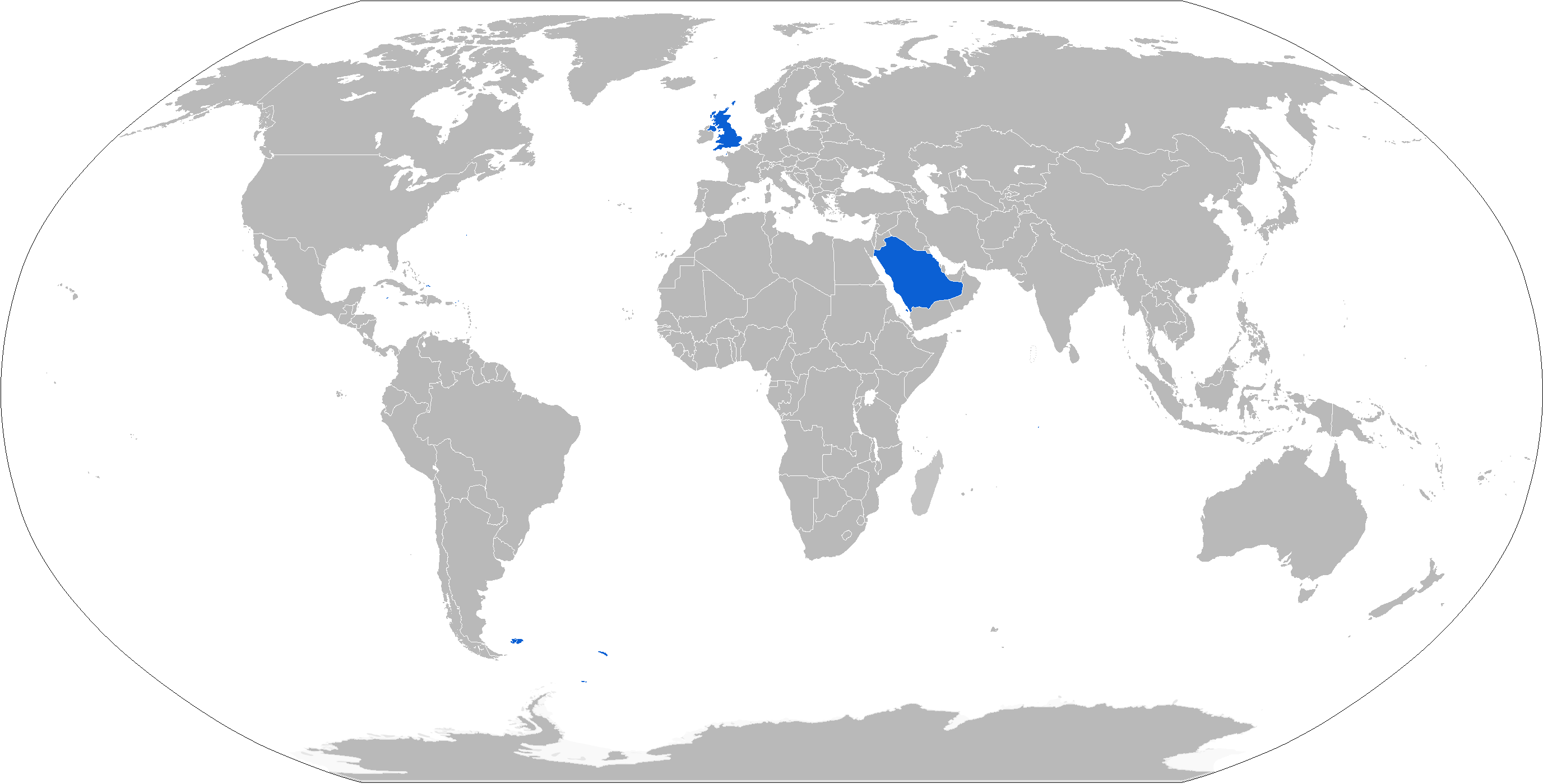 Map with Brimstone operators in blue